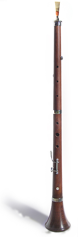 Tarota Bonamusa DO/LA 440.